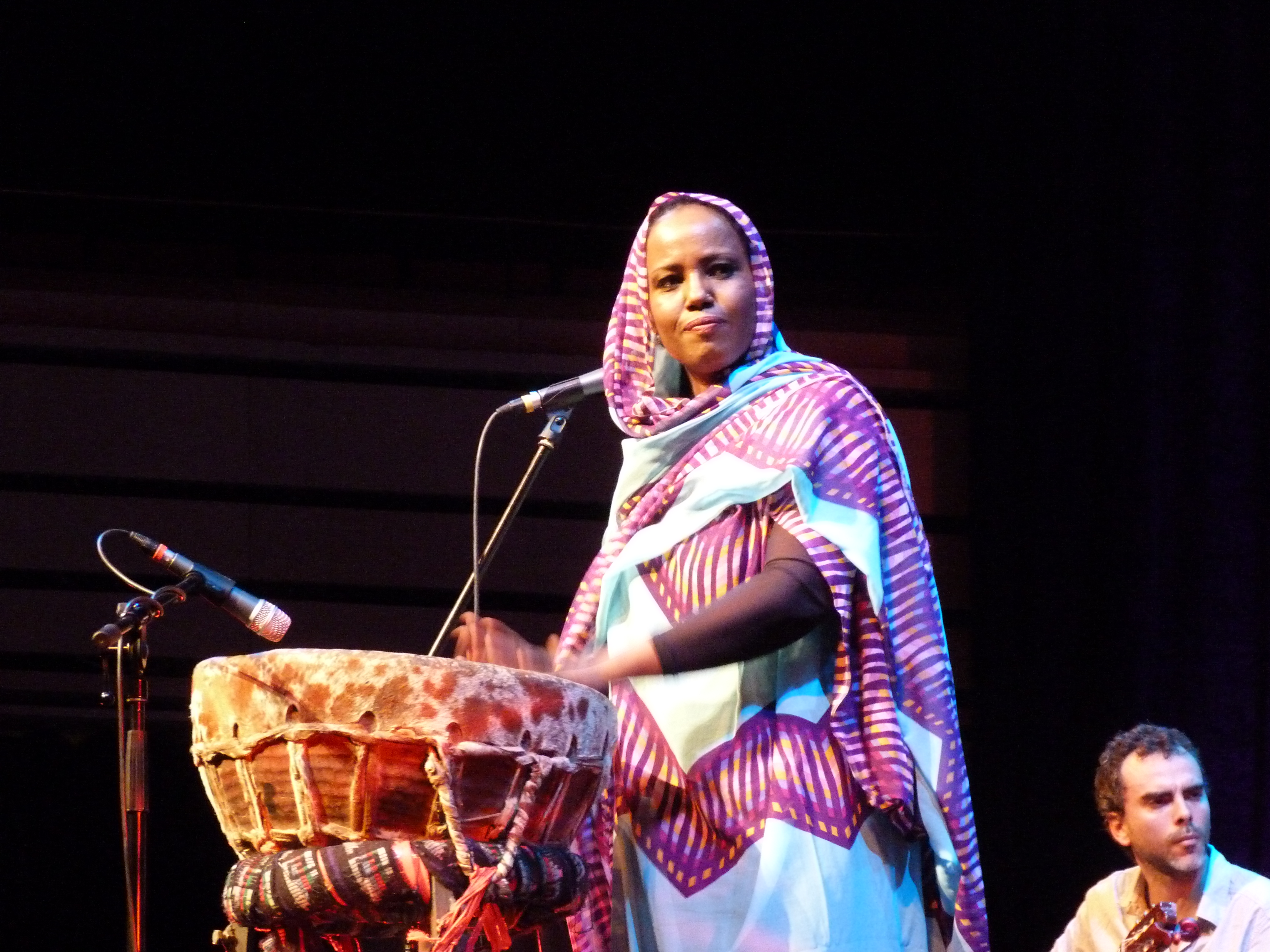 Live on the 22nd of October, 2015. World Music Expo 2015, Budapest, Hungary. Aziza Brahim and Gulili Mankoo (band)